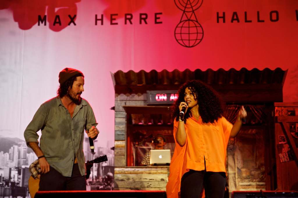 Max Herre & Joy Denalane